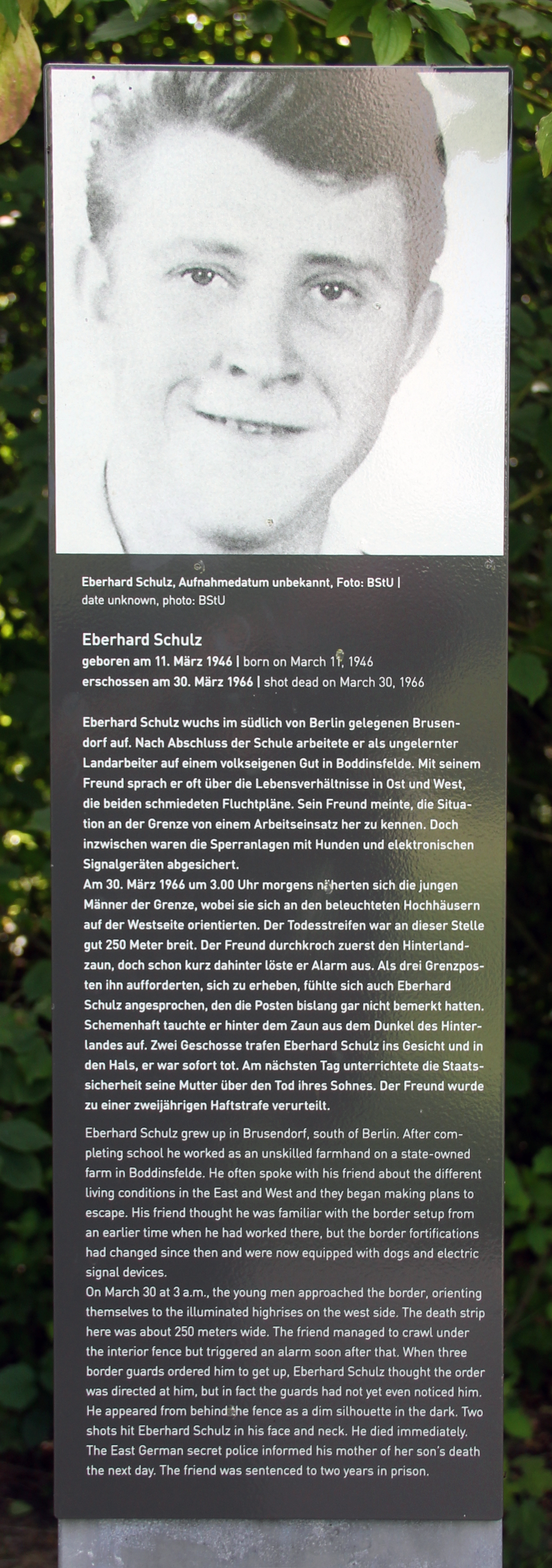 Memorial plaque, Eberhard Schulz, Kölner Damm, Großziethen, Deutschland